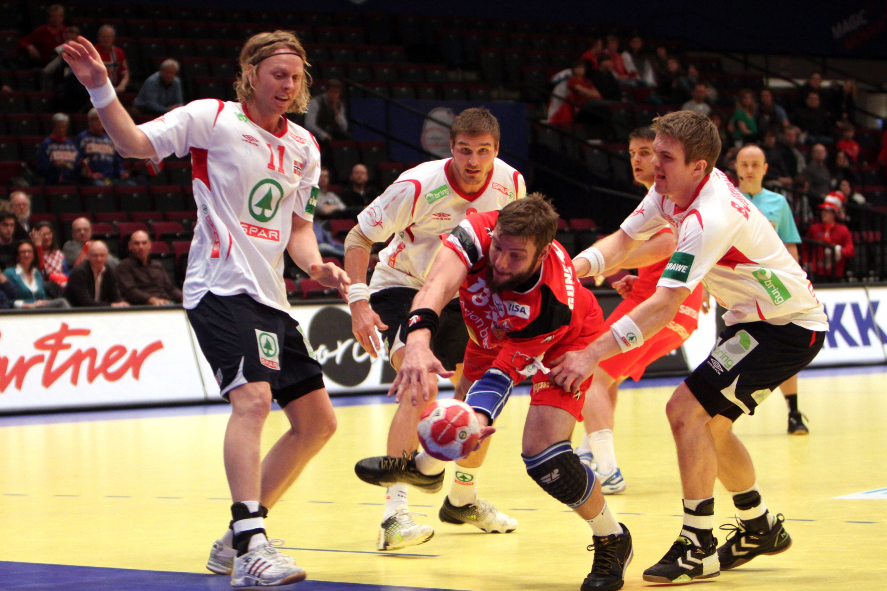 2010 European Men's Handball Championship Group I: Norway vs Iceland 34:35 — Róbert Gunnarsson (Iceland national handball team) scores. Erlend Mamelund (Norway national handball team), Bjarte Myrhol and Lars Erik Bjørnsen (right) are too late.